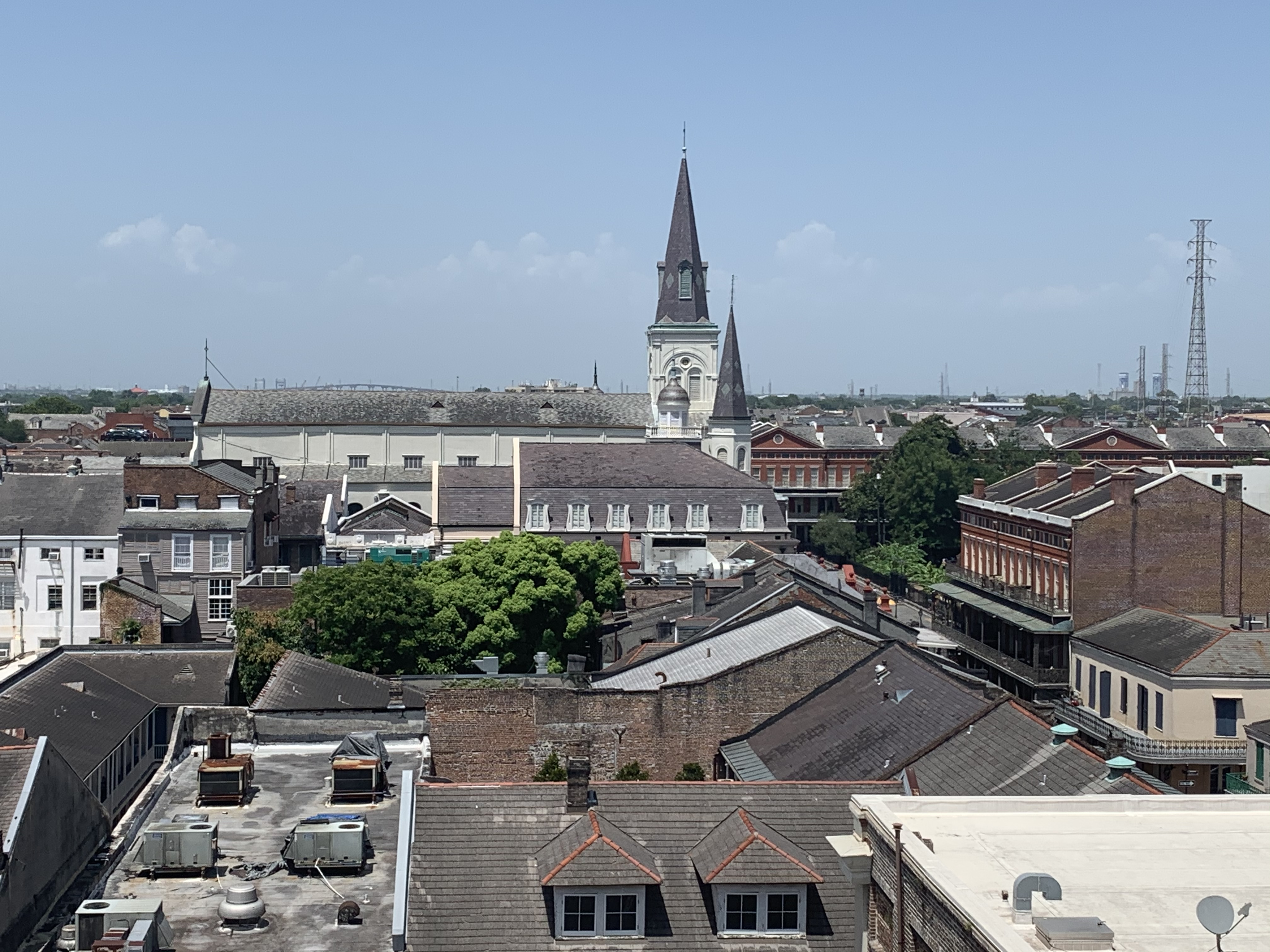 A side view of the cathedral from the rooftop of the Omni Hotel